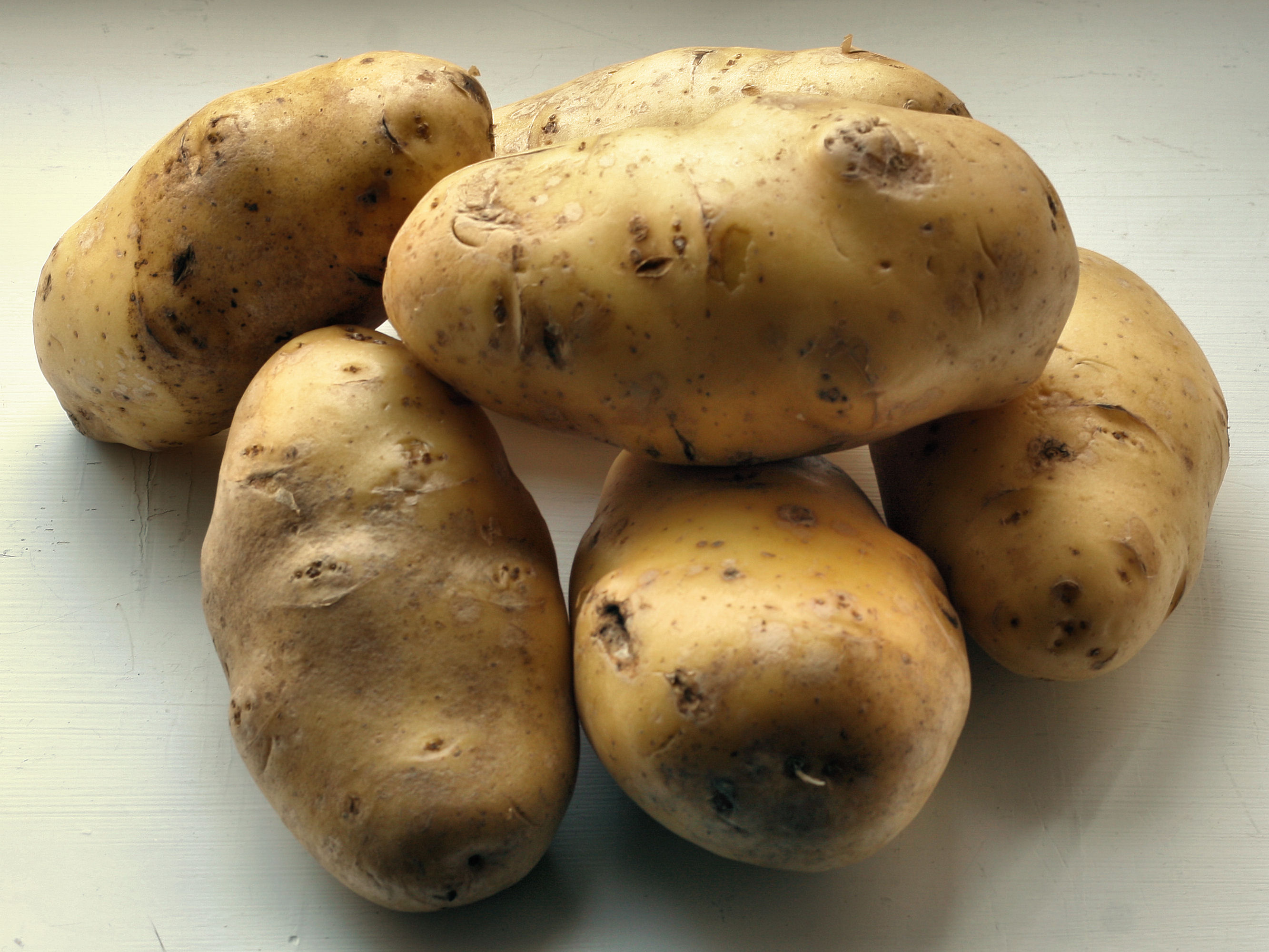 Finnish potatoes.